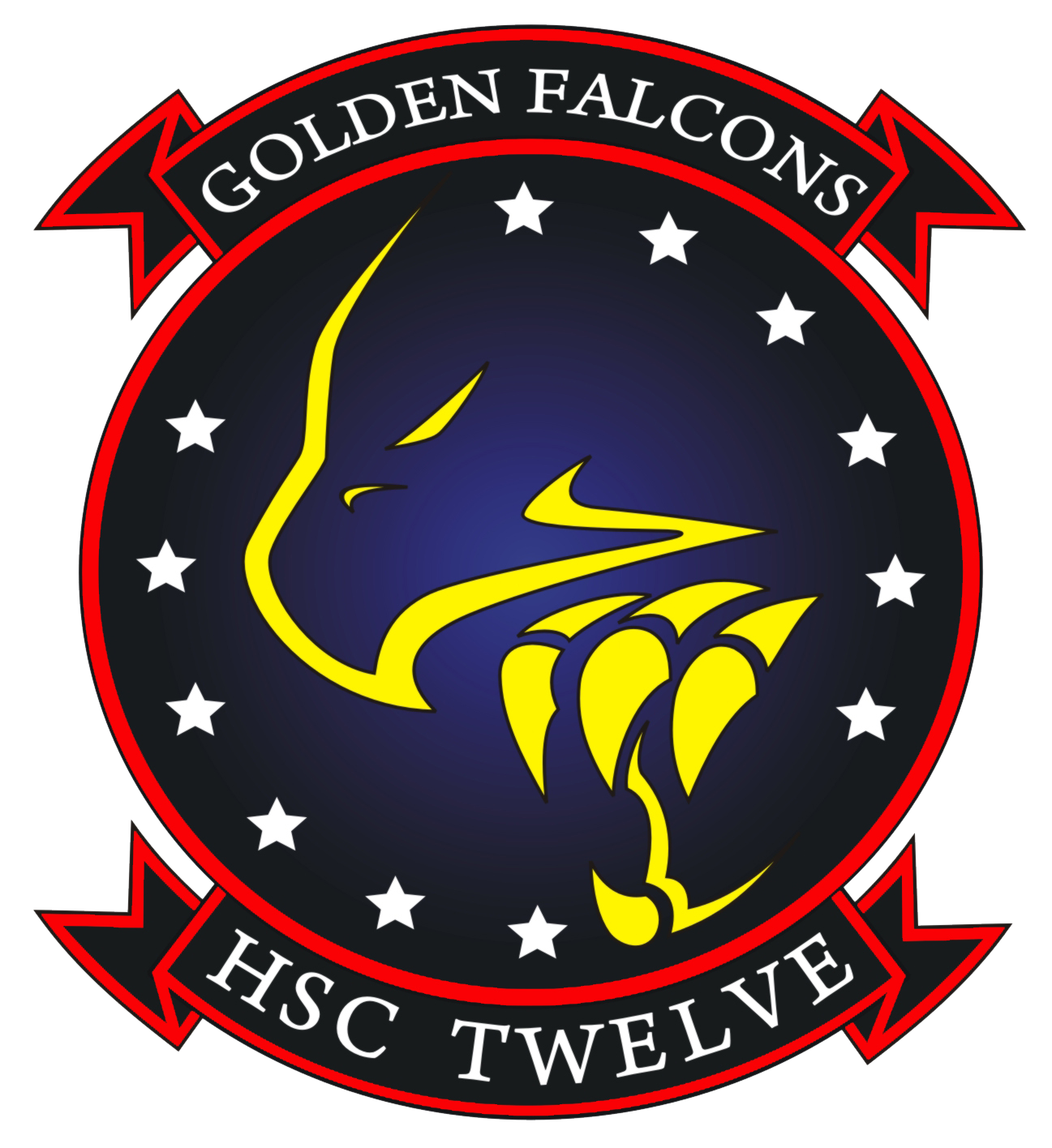 Patch of the U.S. Navy Helicopter Sea Combat Squadron 12 (HSC-12) "Golden Dragons".